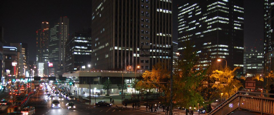 Umeda Shin-michi, Osaka